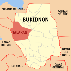 Map of the Bukidnon showing the location of Talakag